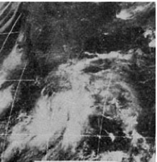 Satellite image of Hurricane Dolores on June 15, 1974 off the coast of Mexico